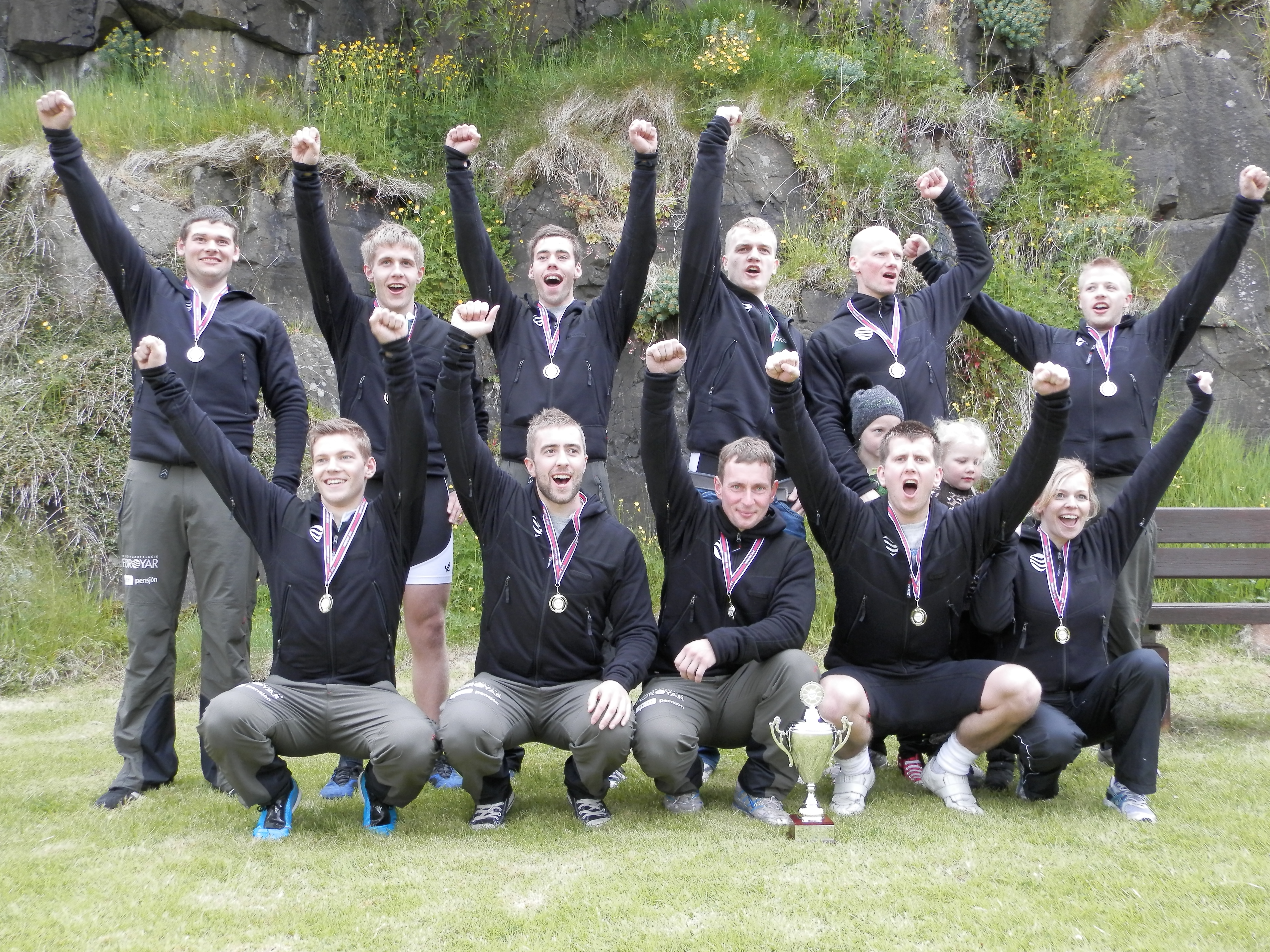 The crew of Suðuroyingur, which is a Faroese rowing boat for ten rowers. They won the race on Jóansøka 2012 in Vágur, Faroe Islands. The boat belongs to Suduroy Boat Club (Faroese: Suðuroyar Kappróðrarfelag). Føroyskt: Suðuroyar Kappróðrarfelag er eitt nýtt róðrarfelag, sum er fyri alla Suðuroynna. Felagið varð stovnað á heysti 2011 og luttók fyrstu ferð í FM kappróðri á sumri 2012. Á Norðoyastevnu gjørdist báturin nummar tvey, síðan nummar trý á Eystanstevnu og á Sundalagsstevnu. Men á Jóansøku, tá teinurin bert var 1000 metrar, eydnaðist tað teimum at vinna róðurin hjá 10-mannaførunum. Myndin er tikin til steypa- og heiðursmerkjahandanina við Minnisvarðan í Vági 23. juni 2012. Tey á myndini eru (ovast frá vinstru): Sjúrður Djurhuus, Jákup Vestergaard Larsen, Dánjal Martin Hofgaard, Joen Petur Jacobsen, Bjarni Hammer, Nils Martin Djurhuus, Gunnar í Dali, Bárður Poulsen, Johan Sofus Muller, Niklas Gunnarstein Joensen og Jannie Dam Jacobsen.